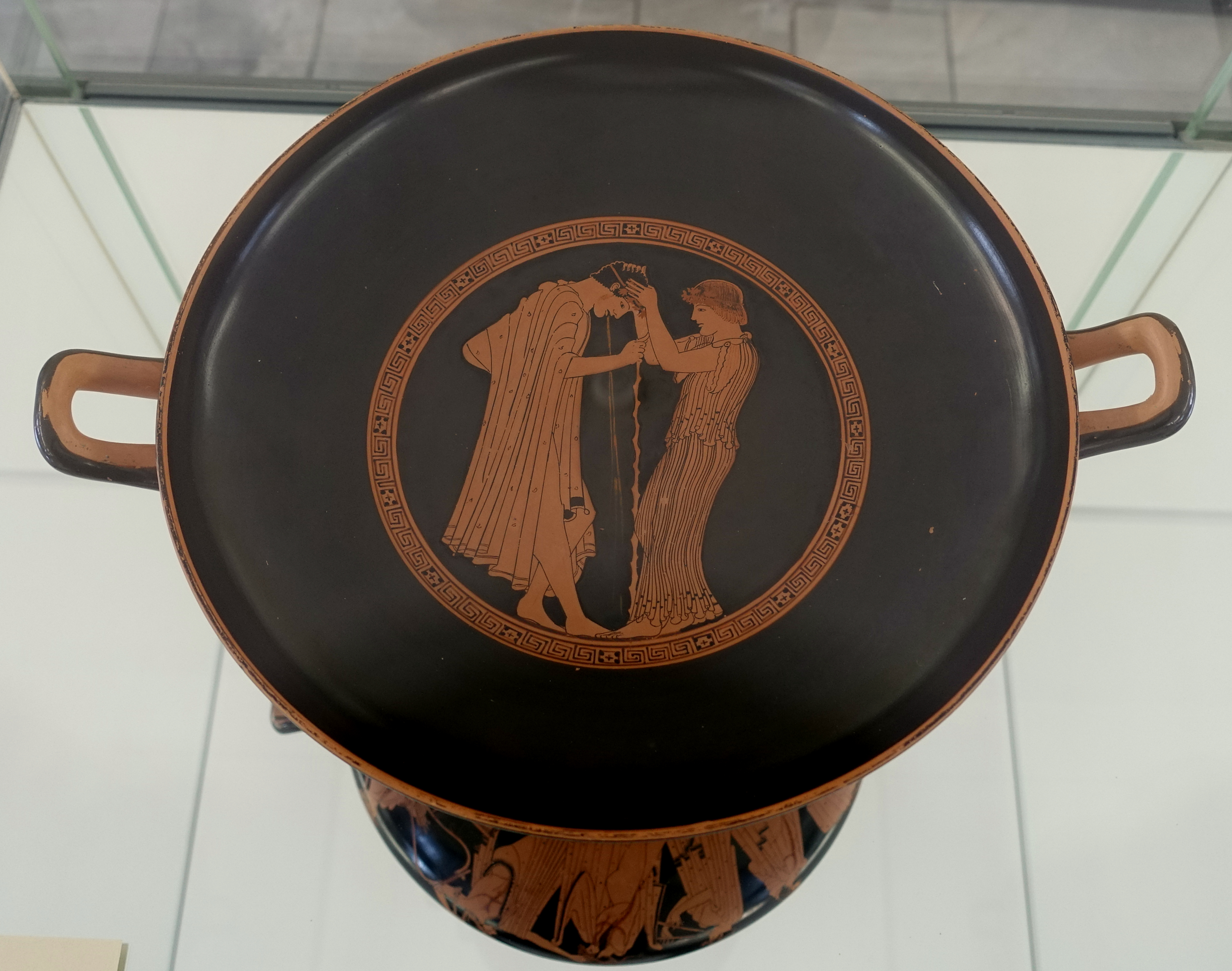 Exhibit in the Martin von Wagner Museum - Würzburg, Germany.